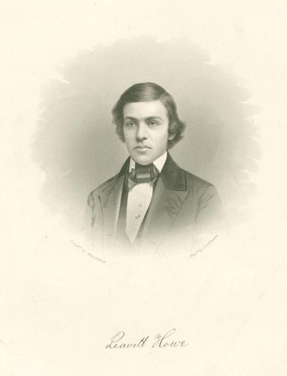 Leavitt Howe (1836-1904), son of Mrs. Elizabeth Leavitt Howe (1815-1899), only daughter of New York City banker and financier David Leavitt. Born in Brooklyn, New York, Leavitt Howe graduated from Phillips Andover Academy and Yale University, and subsequently moved to Princeton, New Jersey, where he had banking and agricultural interests. He bred cattle on his estate "Fieldhead" on Snowden Lane in Princeton.